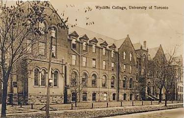 Old Wycliffe College photo